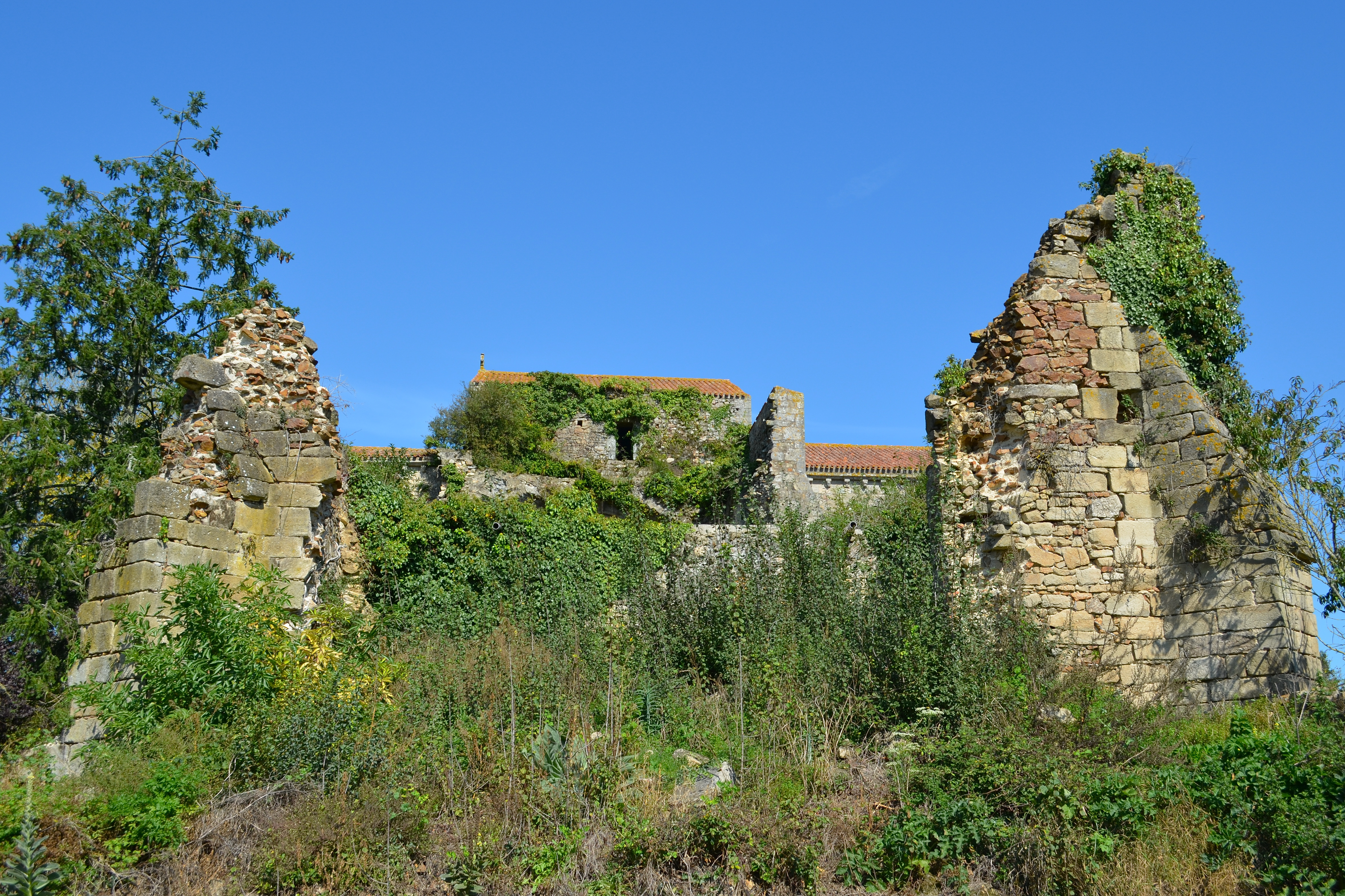 Fontenelles abbey ruins (13th-15th century) - Saint André D'Ornay, La Roche-sur-Yon